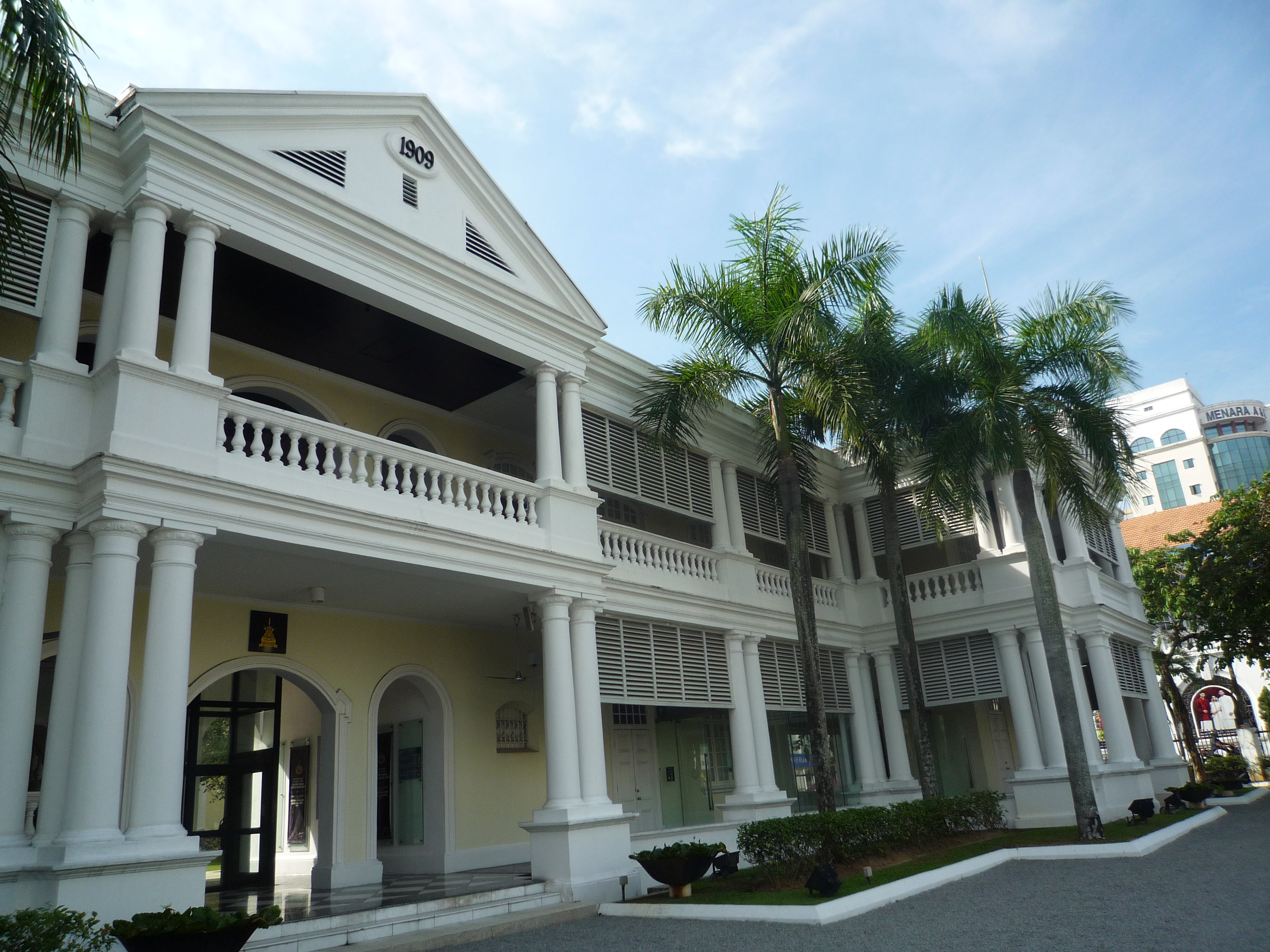 Royal Gallery of Sultan Abdul Aziz